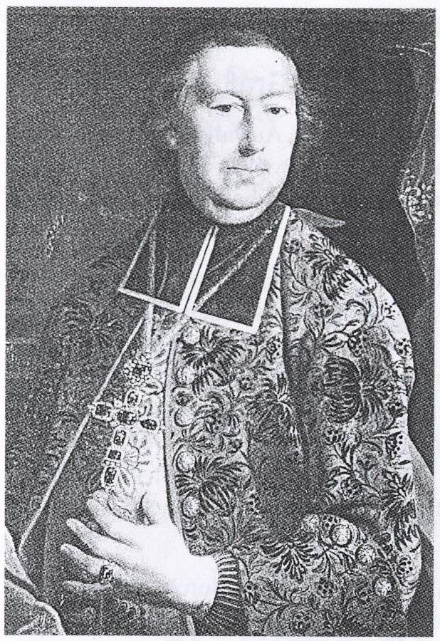 Christoph Nebel (1690-1769), Weihbischof in Mainz, Gemälde im Mainzer Priesterseminar